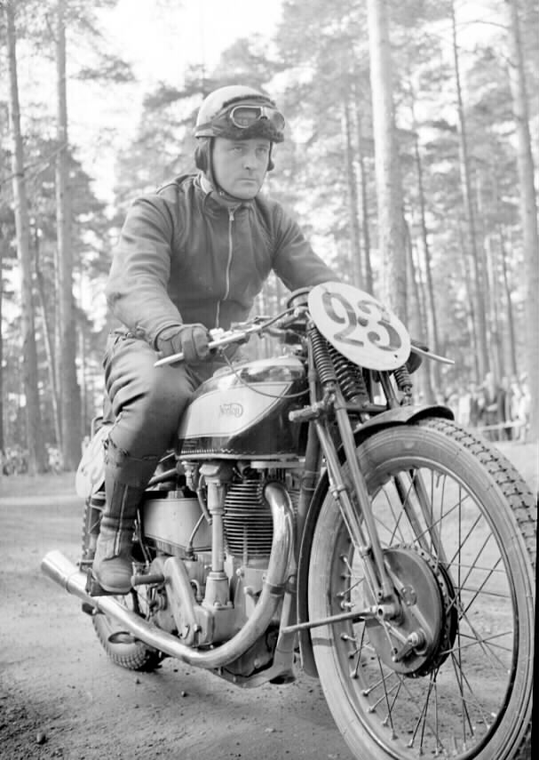 Finnish motorcycle racer Raine Lampinen at Pyynikki, Tampere, in 1938.